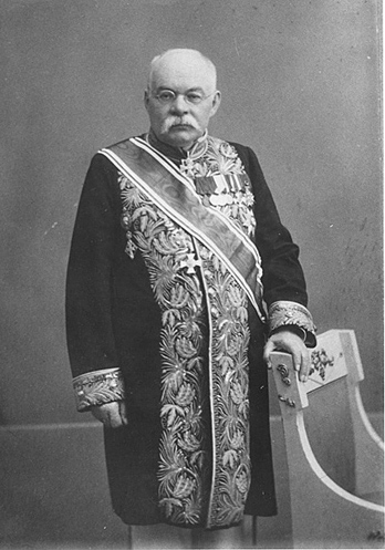 Ivan Tsvetaev (1847—1913) — Russian historian and archeologist